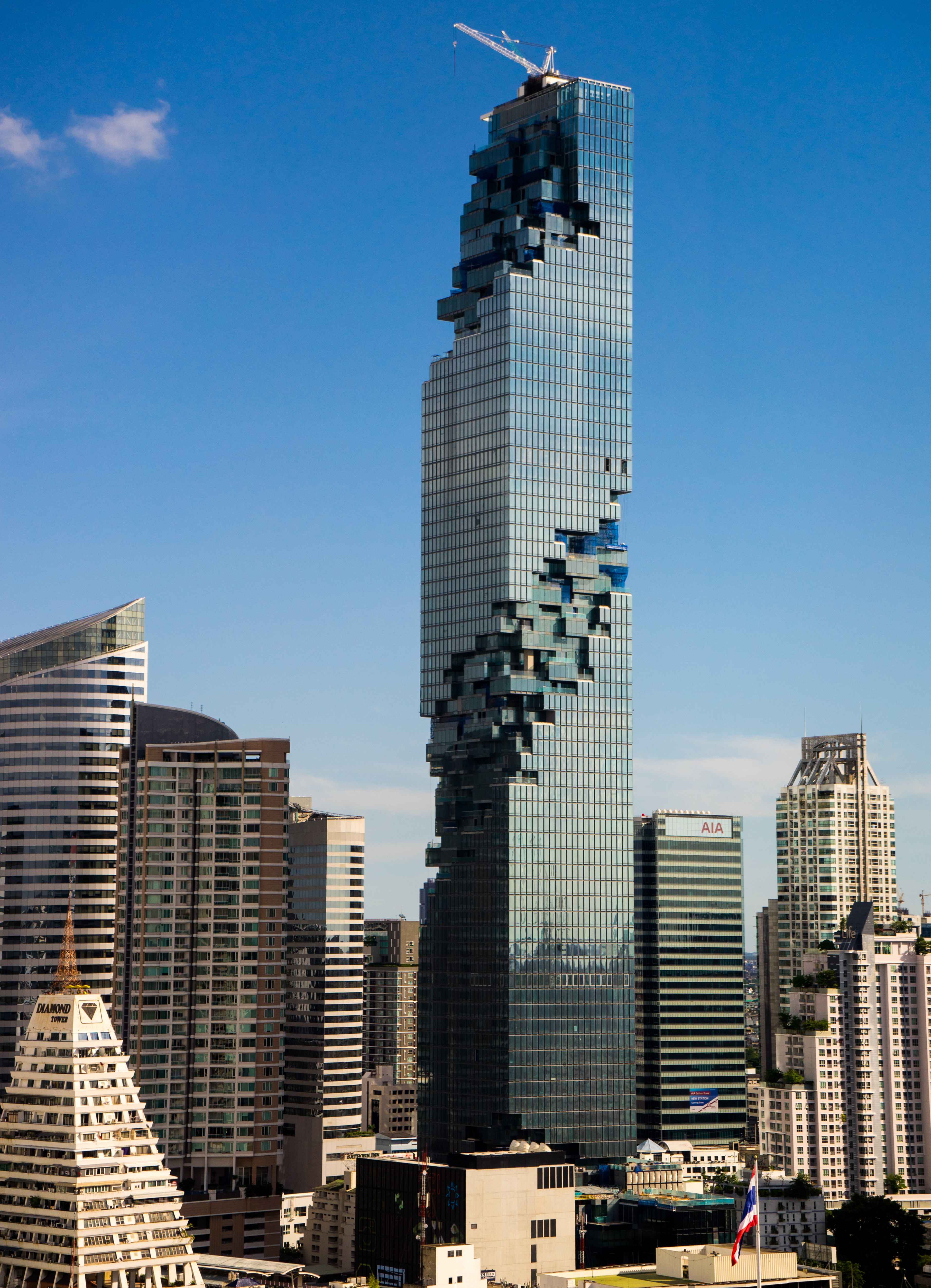 The MahaNakhon skyscraper in Bangkok